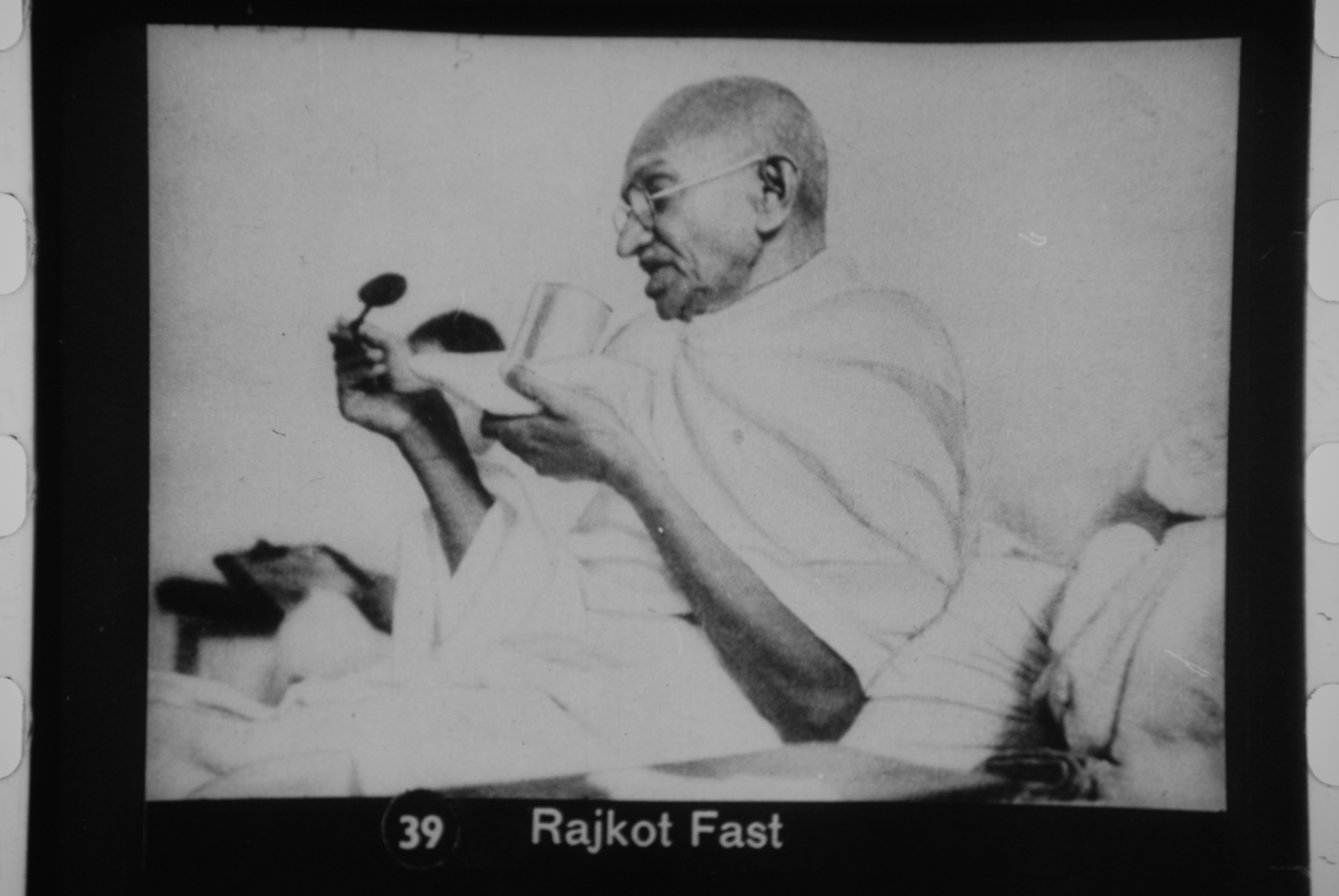 Gandhi fasting at Rajkot, Gujarat.